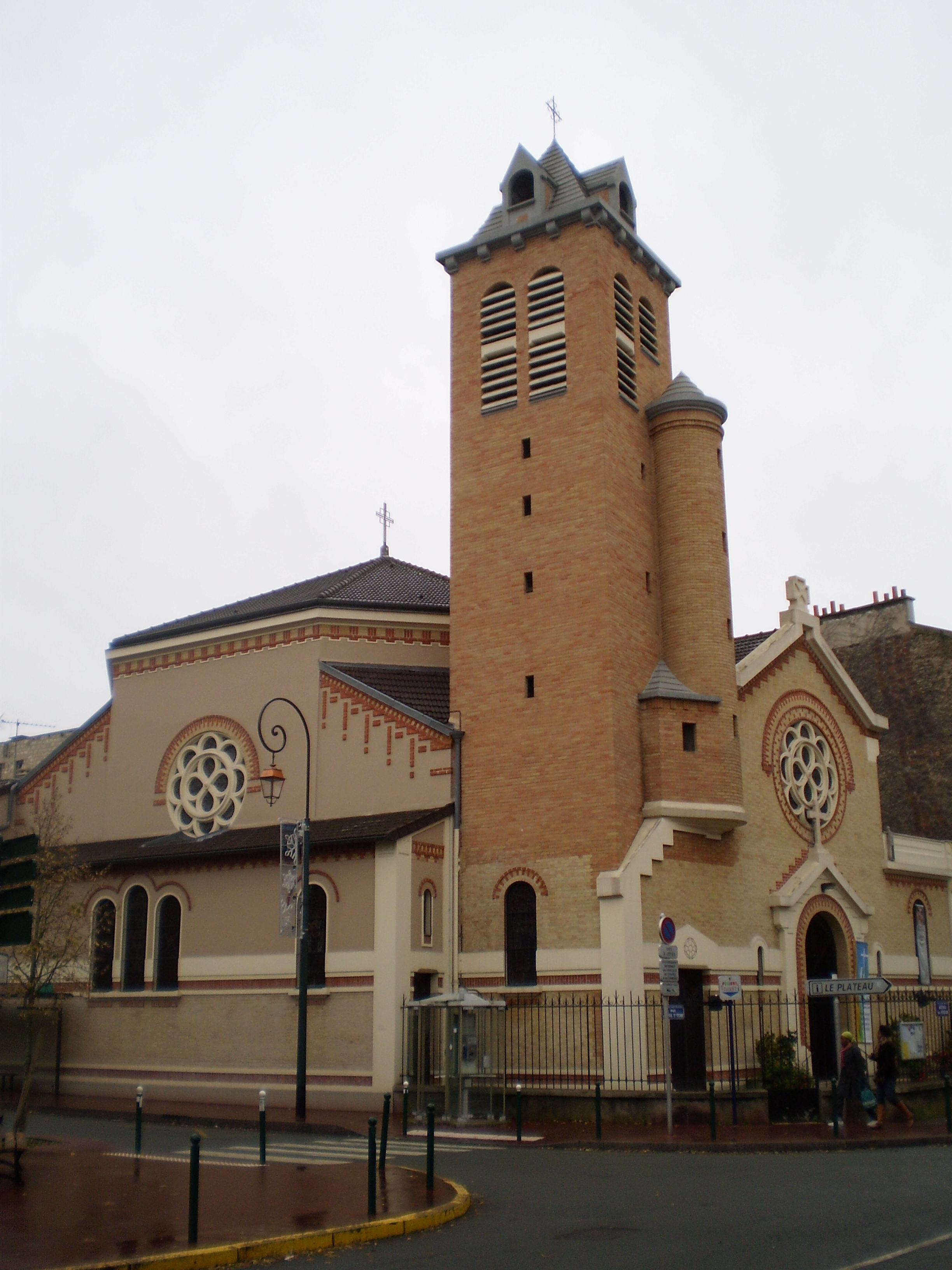 Saint André's church, Saint-Maurice, Val-de-Marne, Île-de-France, France